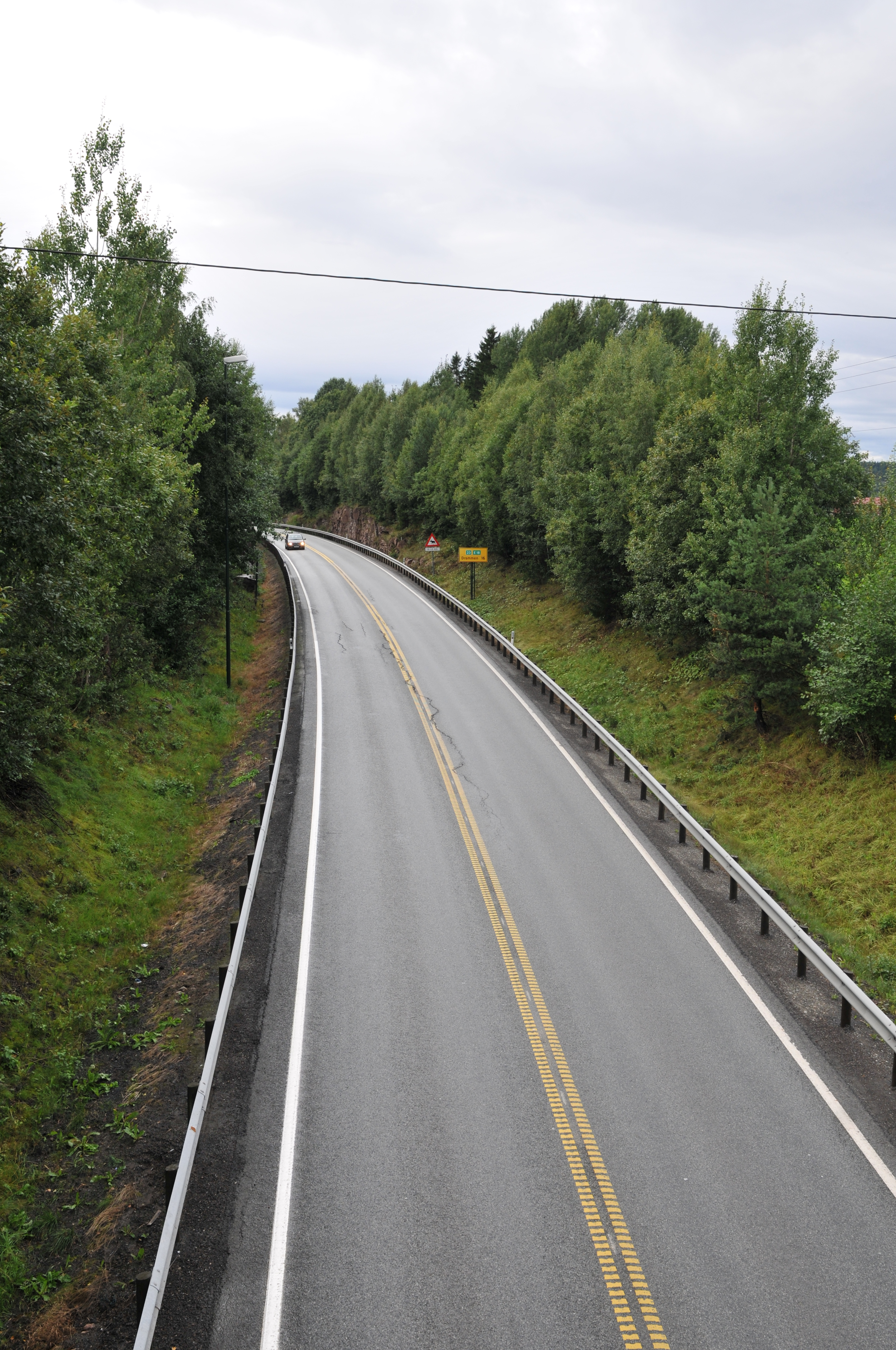 Riksvei 23 in Røyken, Buskerud, Norway taken from the Katrineåsveien bridge. View of road towards SpikkestadNorsk bokmål: Riksvei 23 i Røyken tatt fra broen til Katrineåsveien over riksveien. Viser veien i retning Spikkestad.